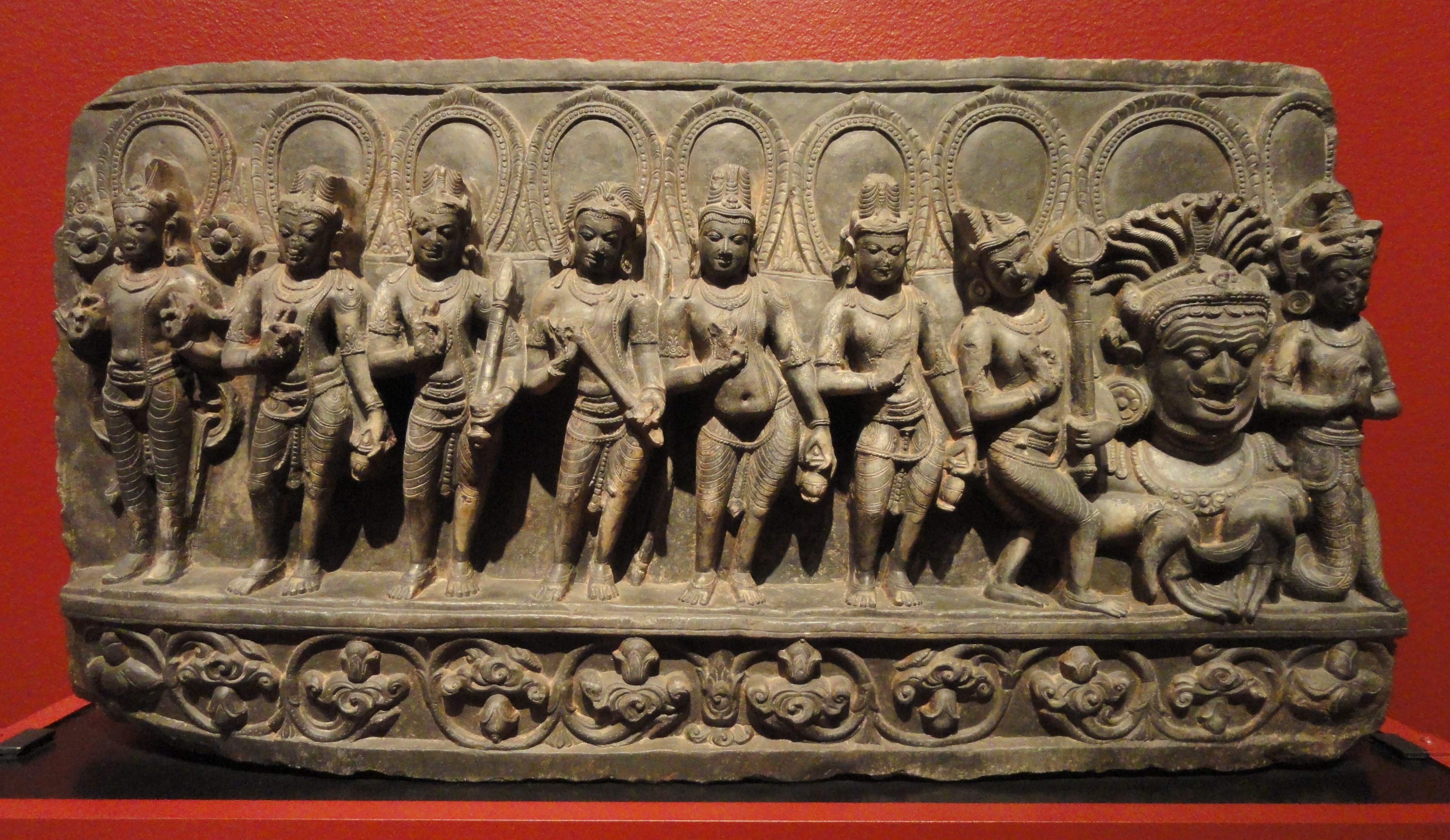 Art of India in the San Diego Museum of Art, San Diego, California, USA. This artwork is old enough so that it is in the public domain.